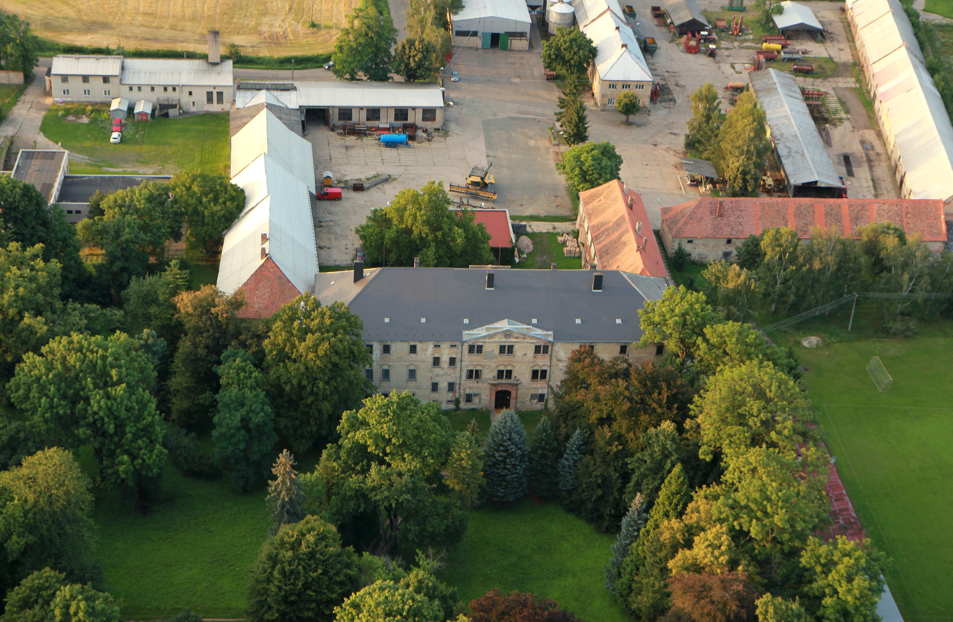 Křinec Castle in Křinec village, Czech Republic